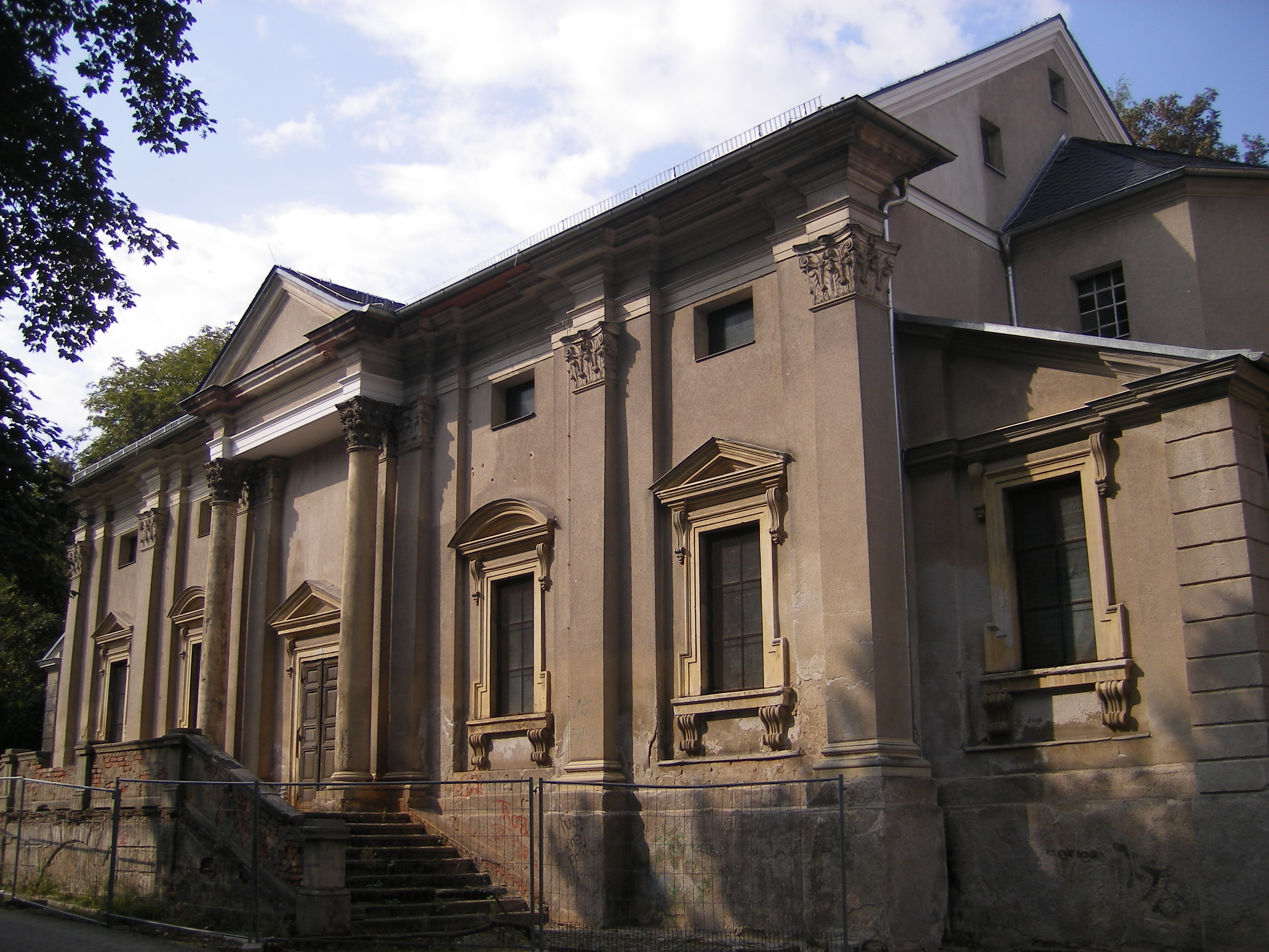 Church on graveyard in Altenburg/Thuringia